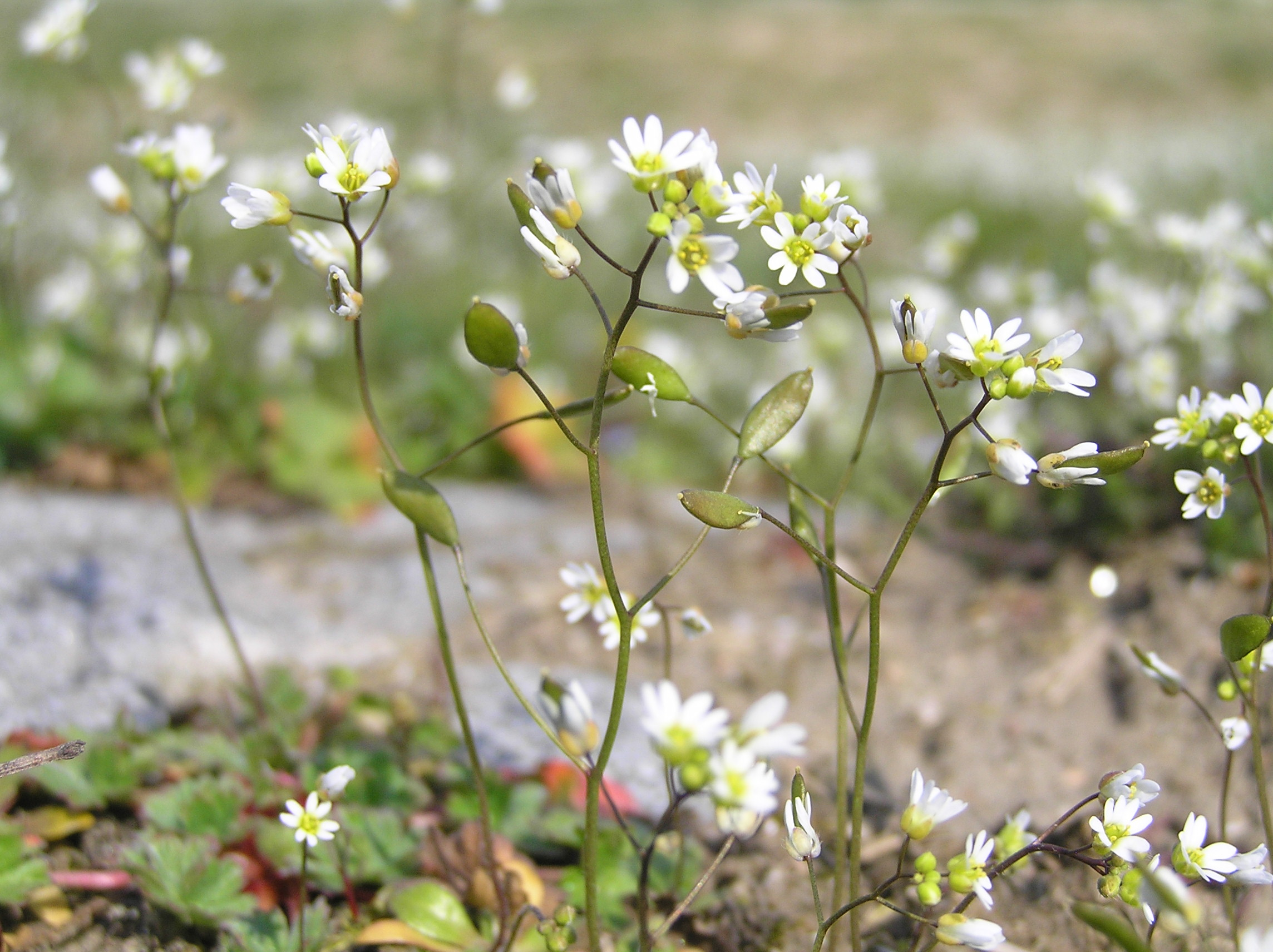 Erophila verna, Choceň, Czech Republic